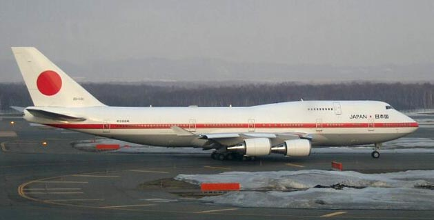 Government aircraft of Japan stands by at New Chitose Airport to go to Iraq.